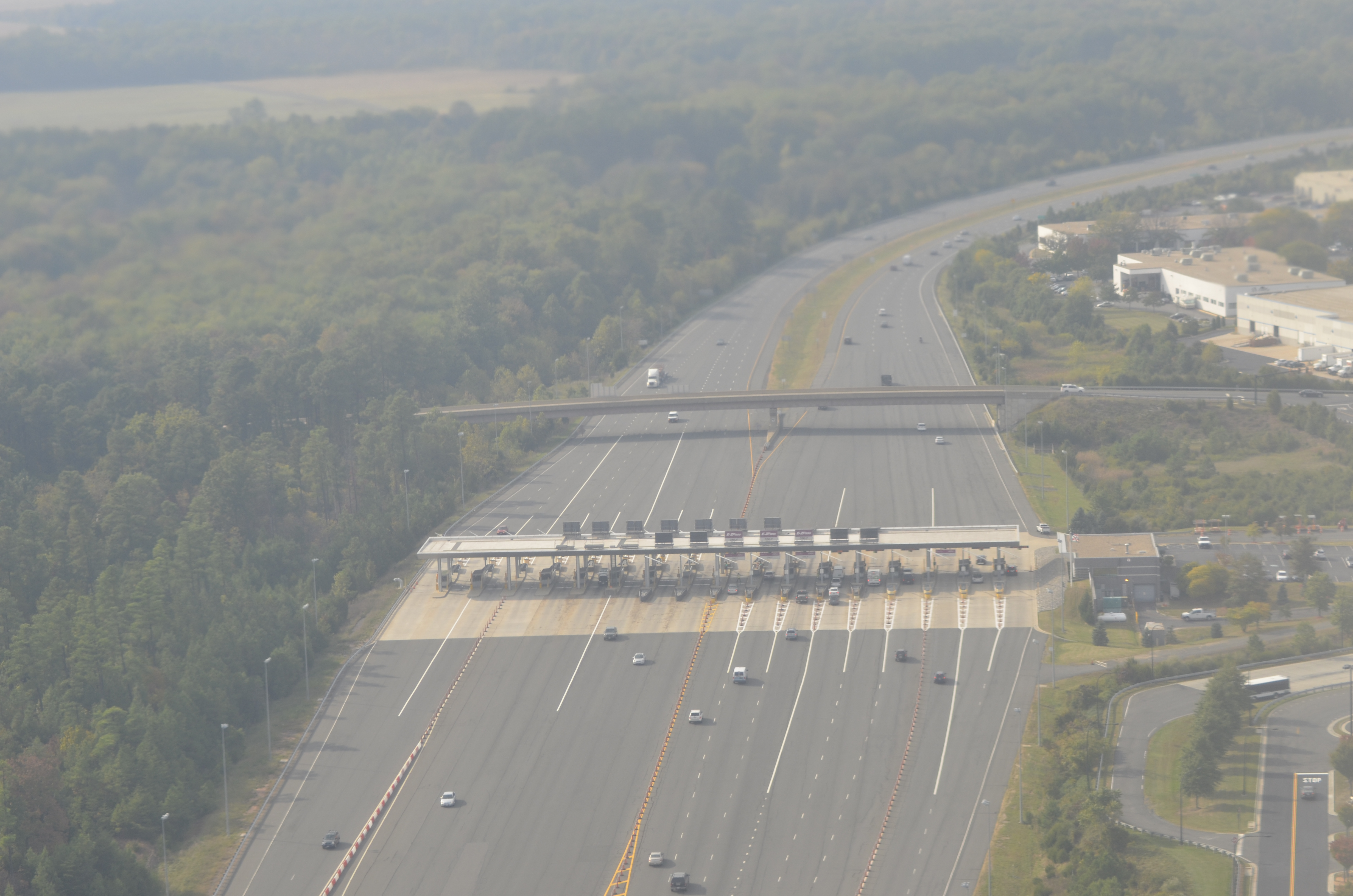 Toll plaza of the Dulles Greenway, westbound, photographed from LH flight 418 approaching Dulles Airport